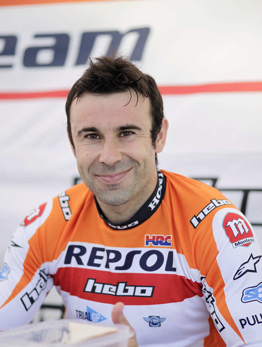 Toni Bou at Trial GP in Belgium